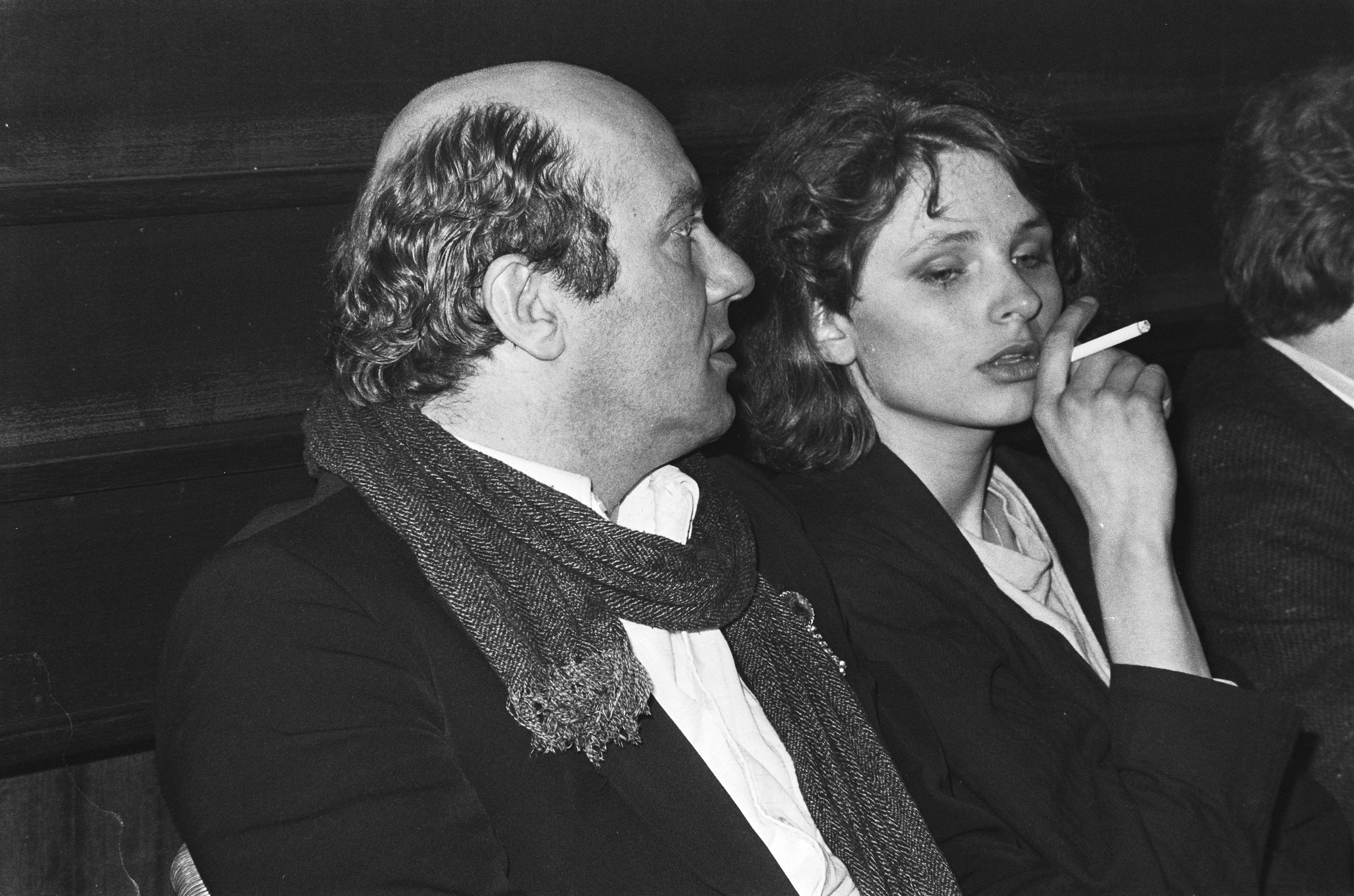 Film Het Bittere Kruid donderdag in premiere; Gerard Thoolen en Ester Spitz. Amsterdam, 23 april 1985